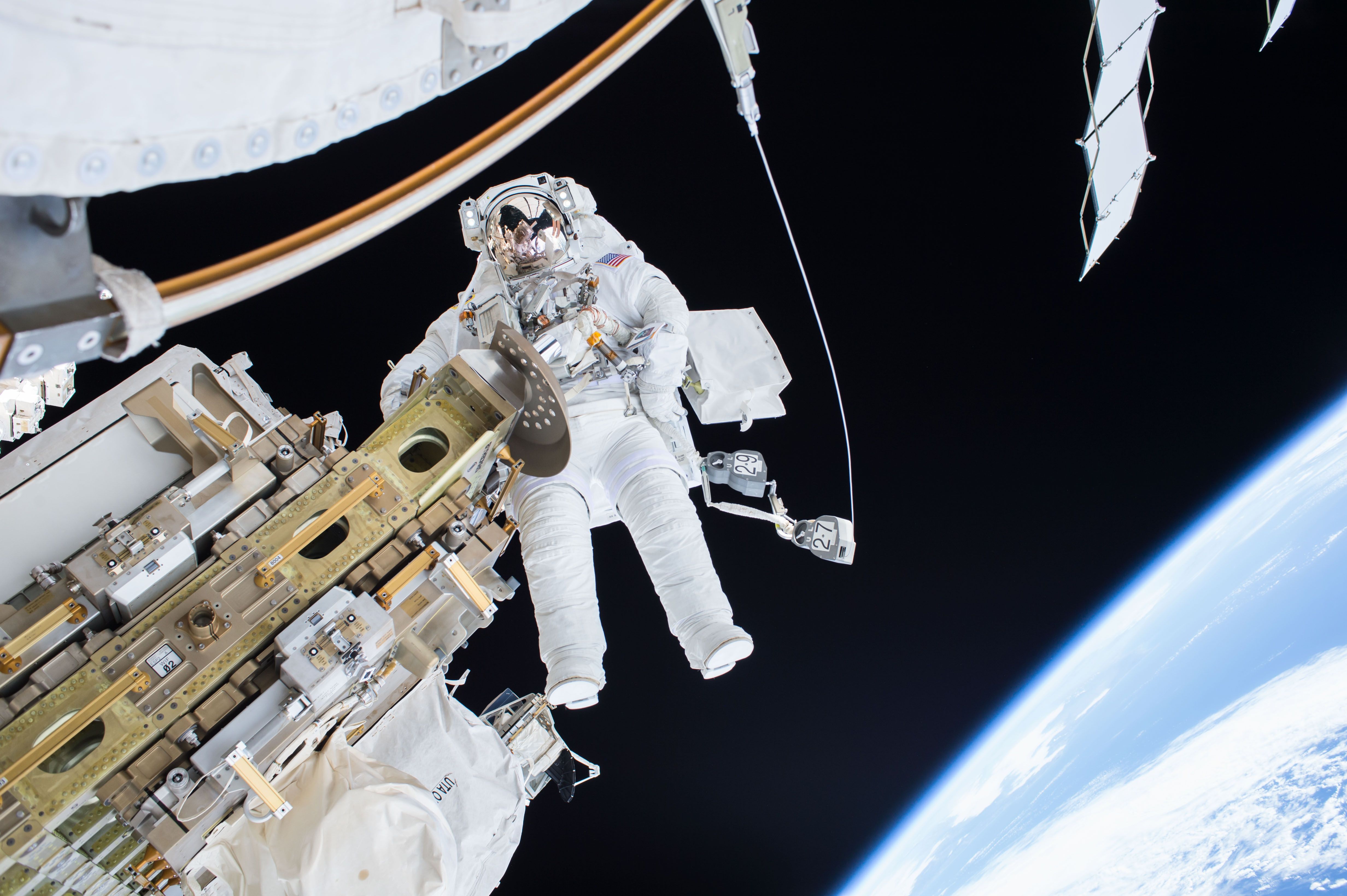 NASA astronaut is seen floating during a spacewalk on Dec. 21, 2015. NASA astronauts Scott Kelly and Tim Kopra released brake handles on crew equipment carts on either side of the space station’s mobile transporter rail car so it could be latched in place ahead of Wednesday’s docking of a Russian cargo resupply spacecraft. Kelly and Kopra also tackled several get-ahead tasks during their three hour, 16 minute spacewalk.